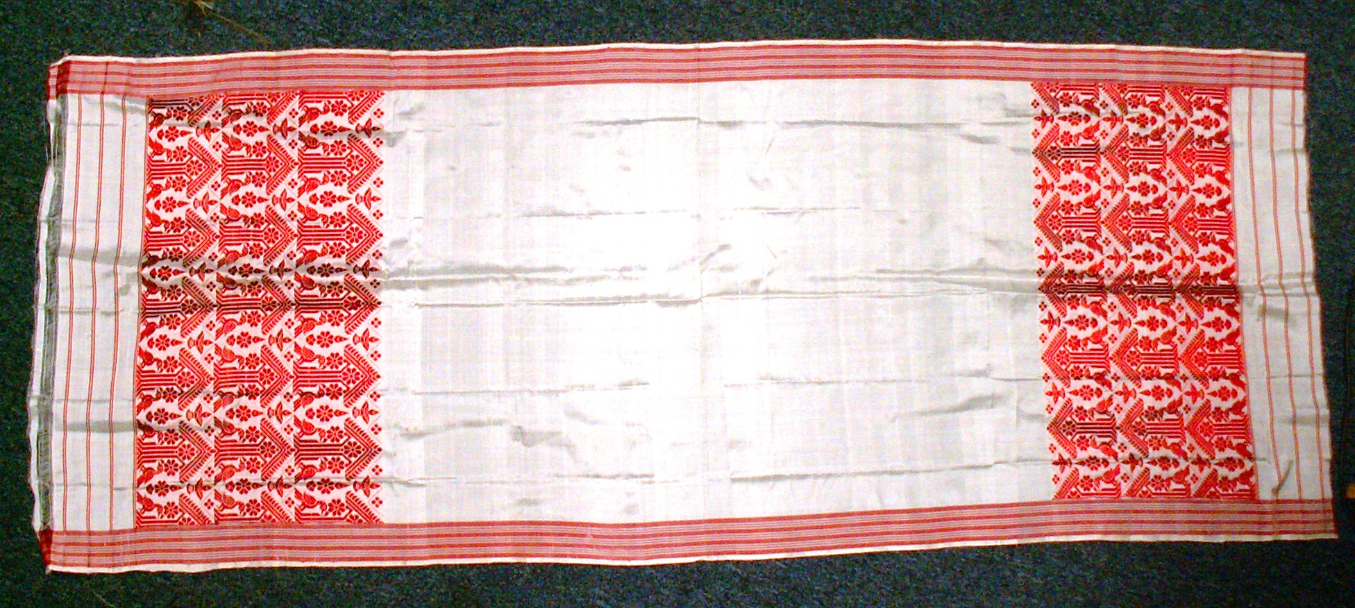 Author: User: Priyankoo Source: Self